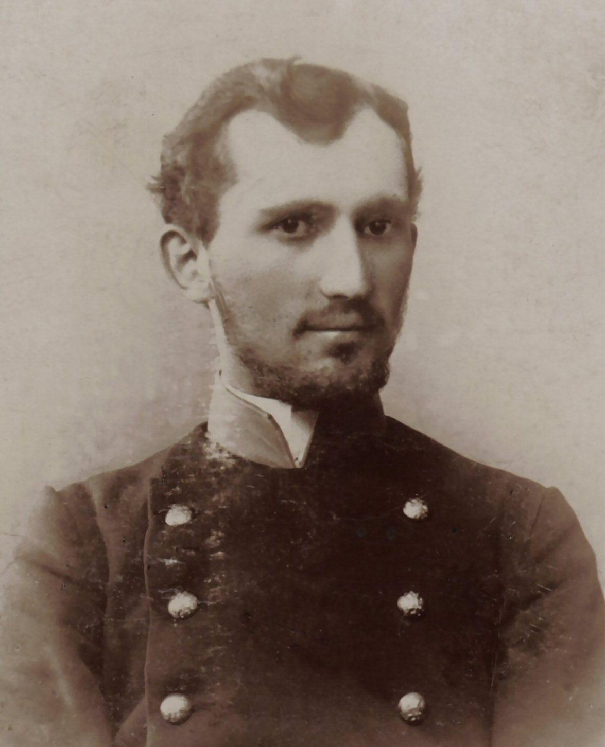 Teofil Sadkowski, student, St. Petersbourg University, Russia, Mathematic faculty